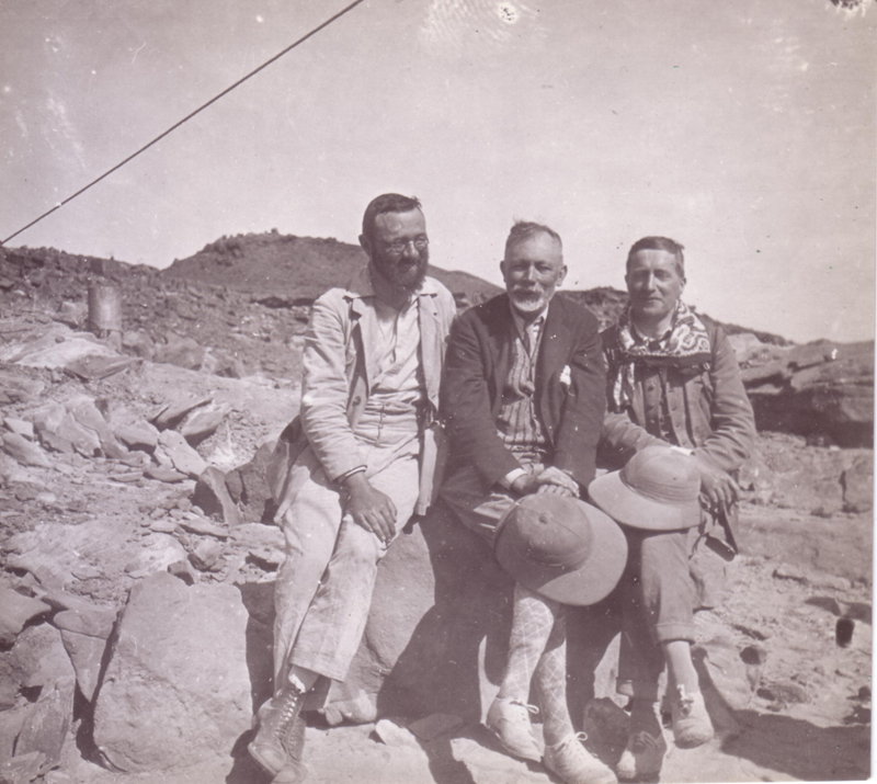 From left to right: expedition surveyor Georges Augustin Barrois (1898-1987), expedition leader Kirsopp Lake (1872-1946), and Egyptologist Adriaan de Buck (1892-1959), at Serabit el-Khadim.